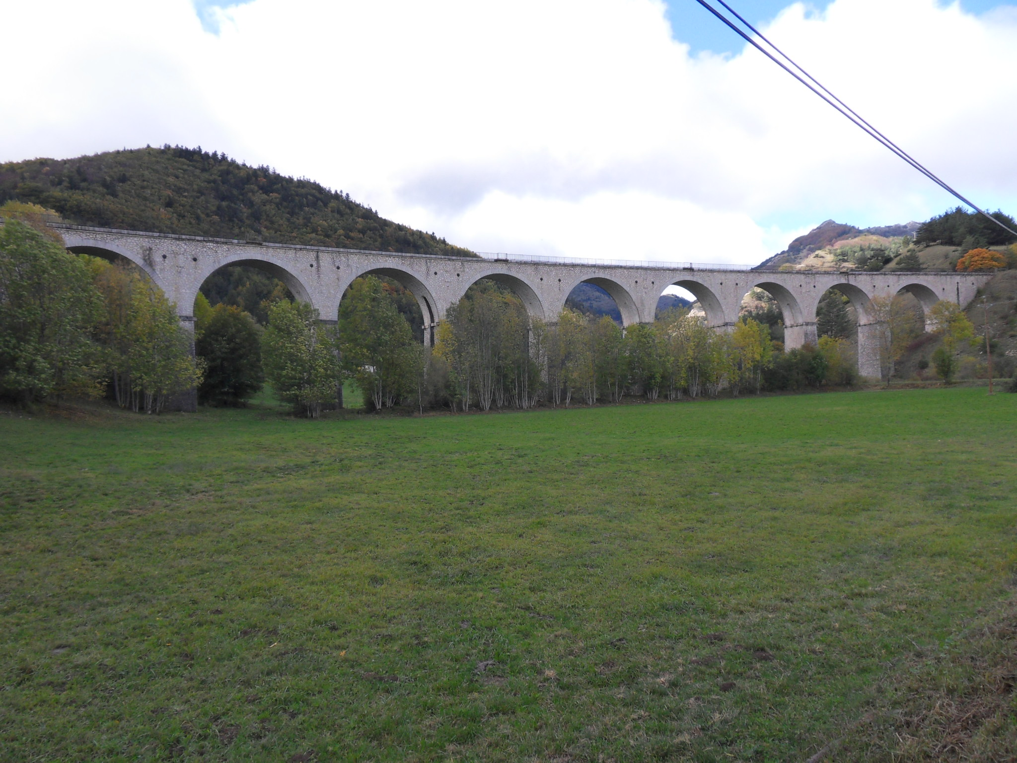 Train viaduct of the line Grenoble - Veynes